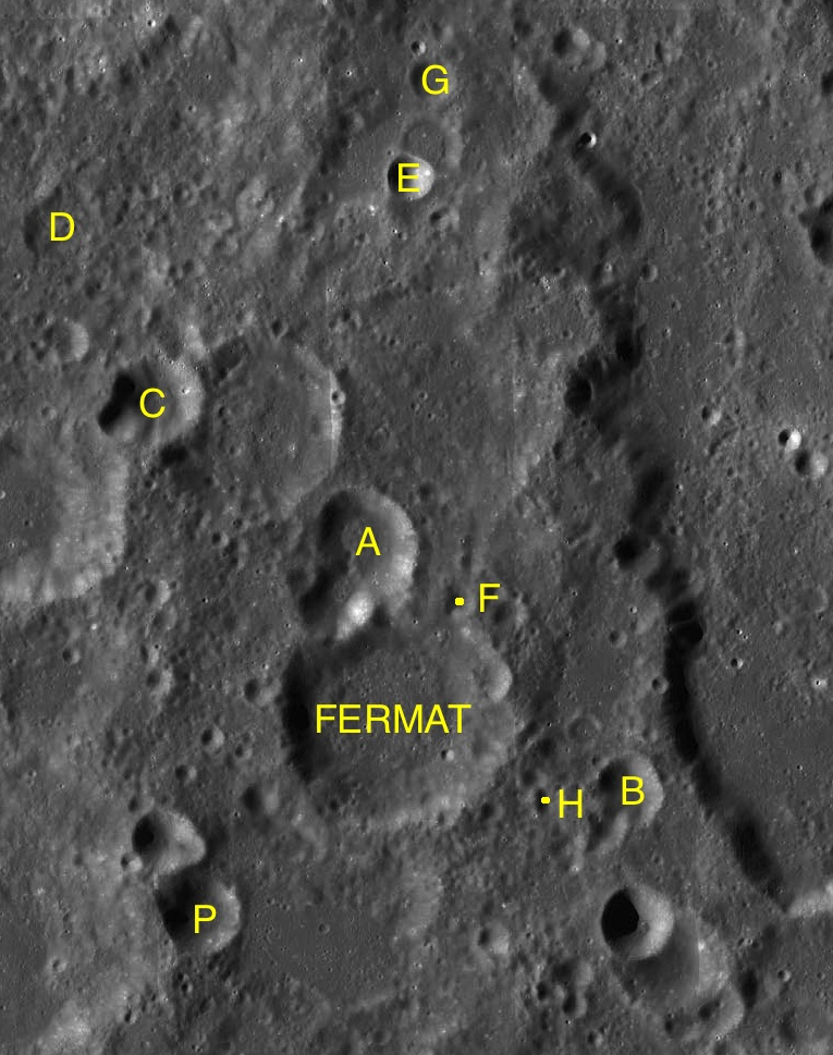 Part of the chart LAC-96 used for the presentation.